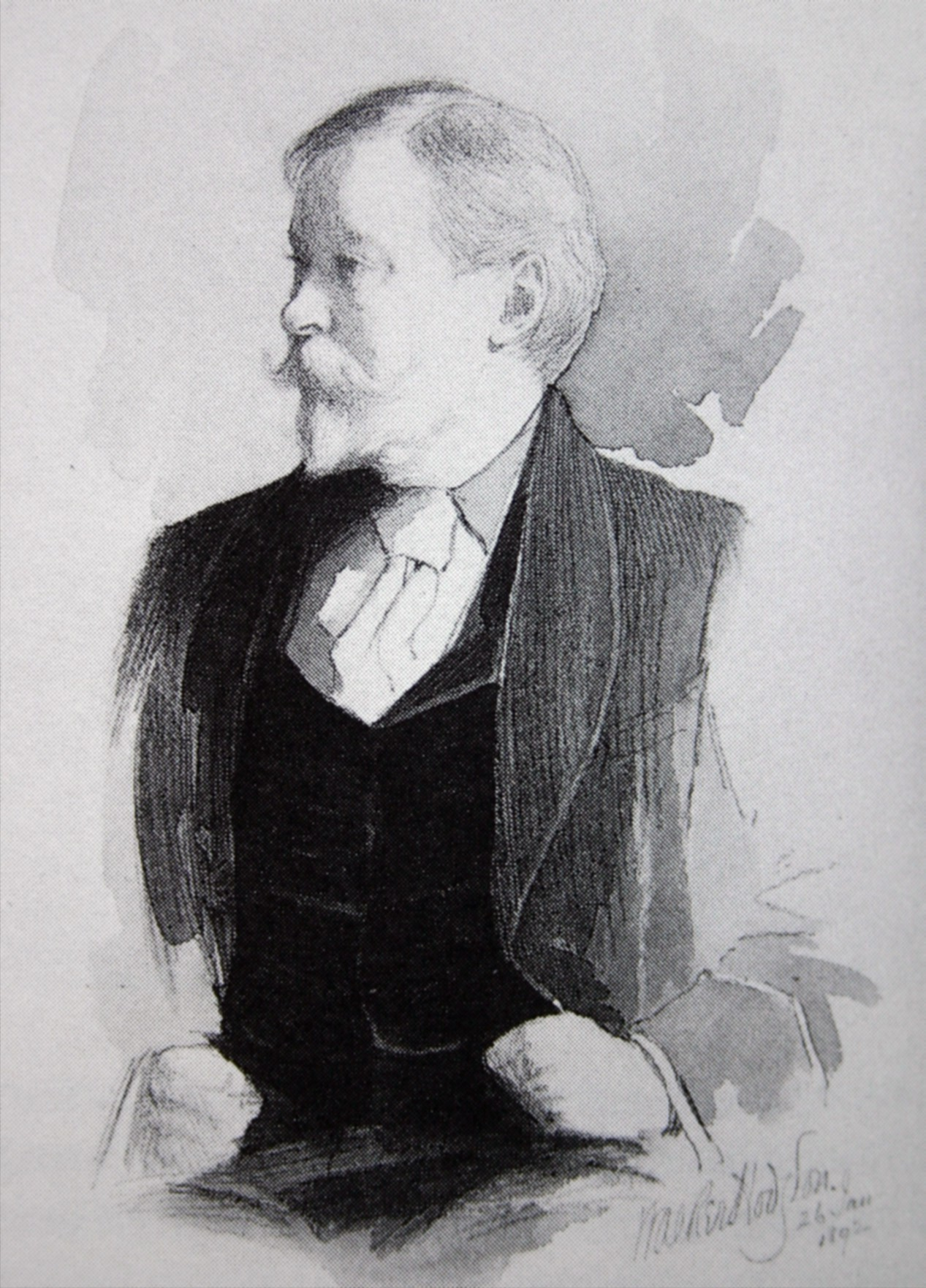 Mortimer Menpes (1860-1938), special war artist